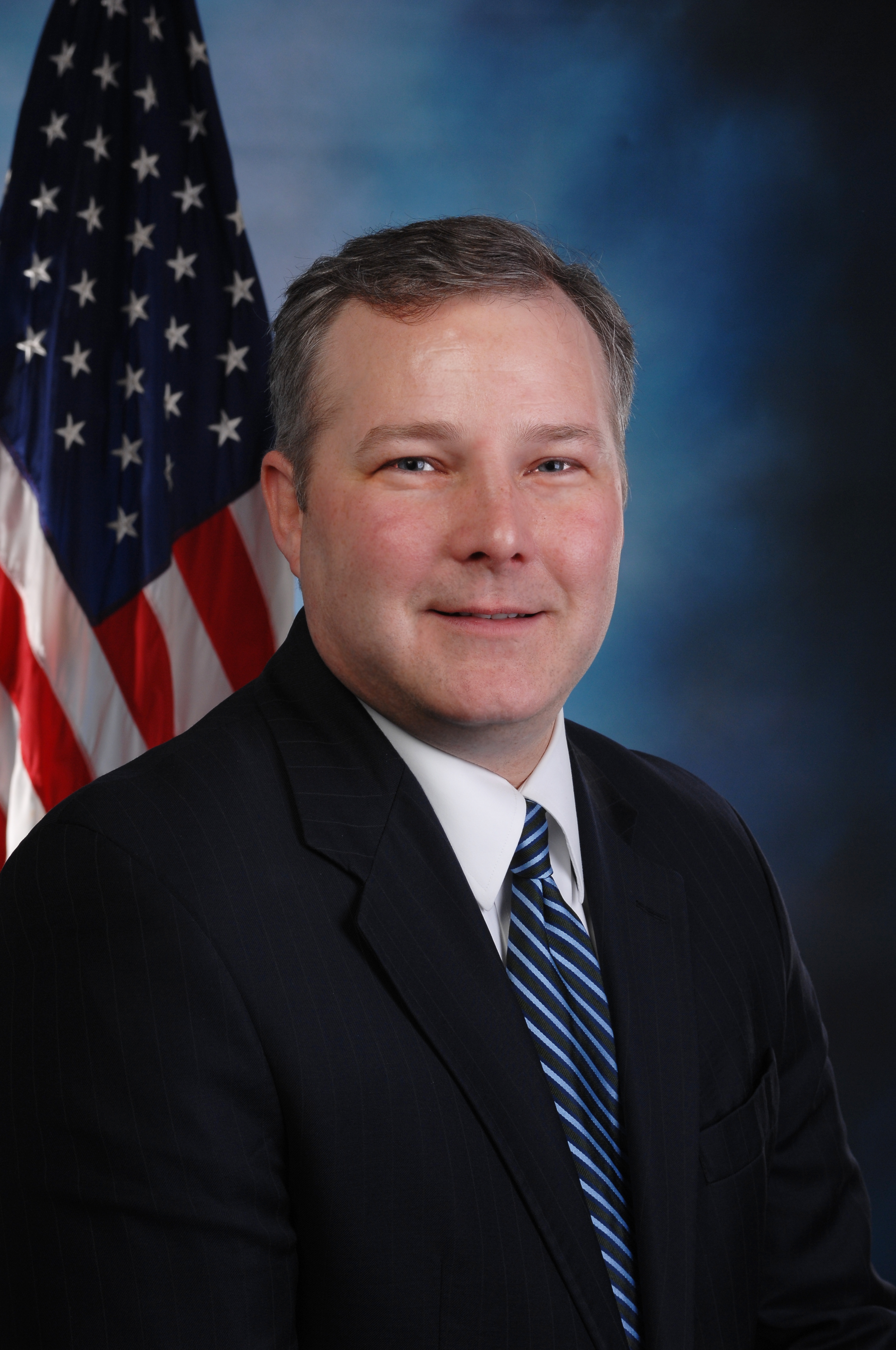 Official portrait of US Rep. Tim Griffin.